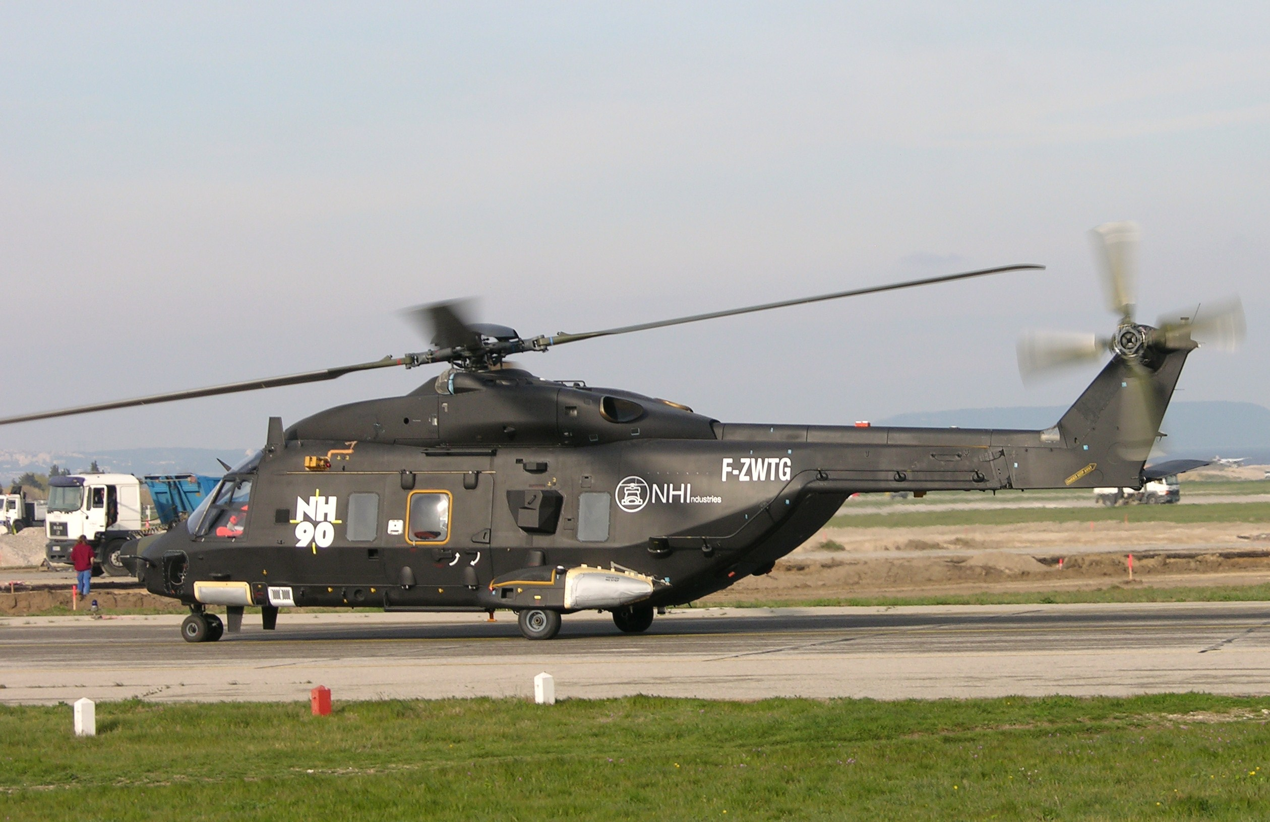 Destined to become serial number 142055, the first NH-90 for Sweden. Seen taxying out at Eurocopter's factory at Marignane.